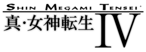 Shin Megami Tensei IV's logotype with black text